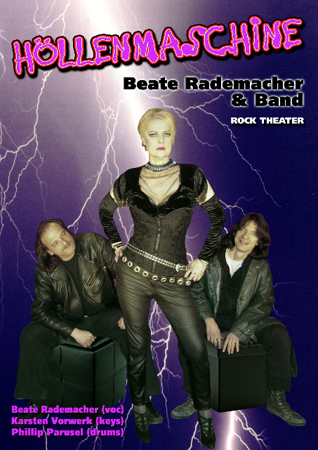 Höllenmaschine